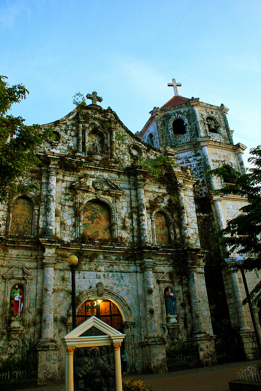 Not really sure what paletada did they put in here, but the tower is actually just covered with cream-colored tiles. I thought the cement covering were peeled off. Sts. Peter and Paul were just later additions. The plaque in front is one of the stations of the cross set-up at the church patio.